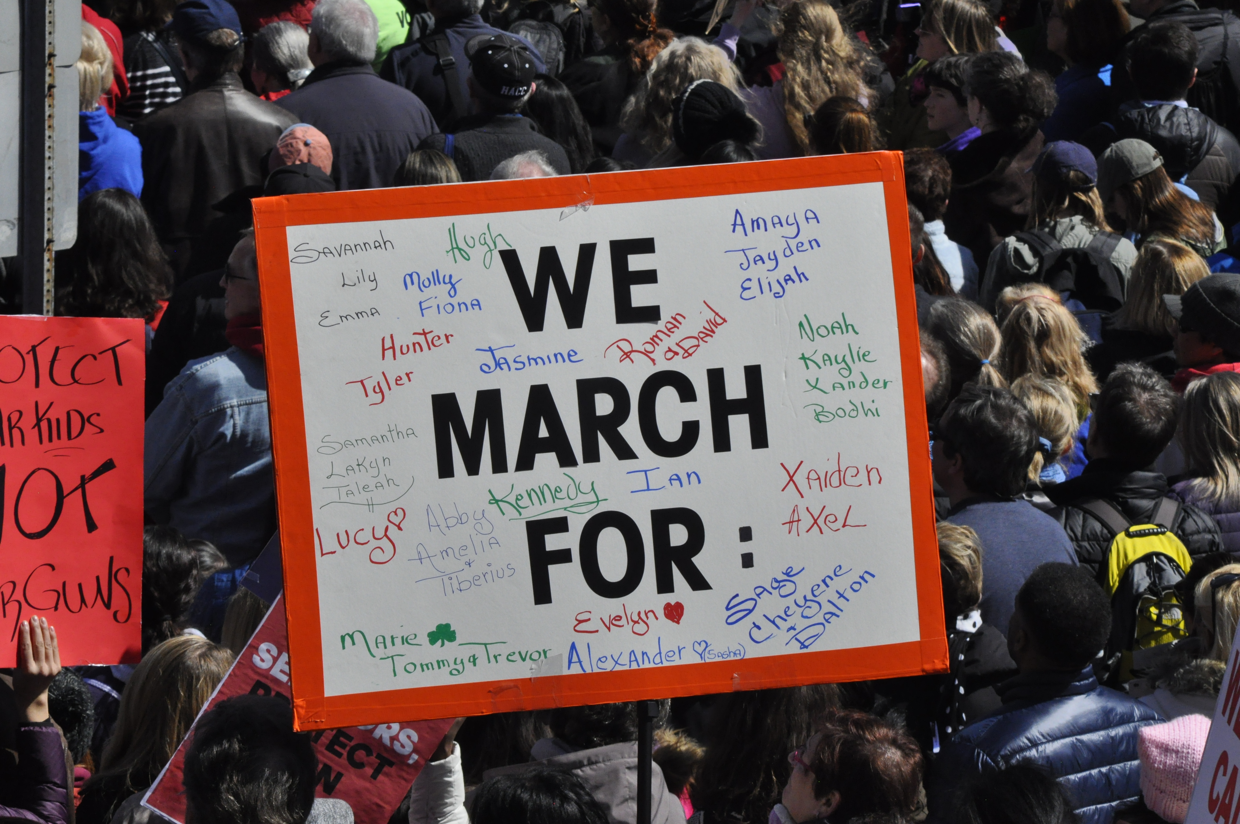 Banners and signs at March for Our Lives on 24 March 2018 in Washington, D.C.